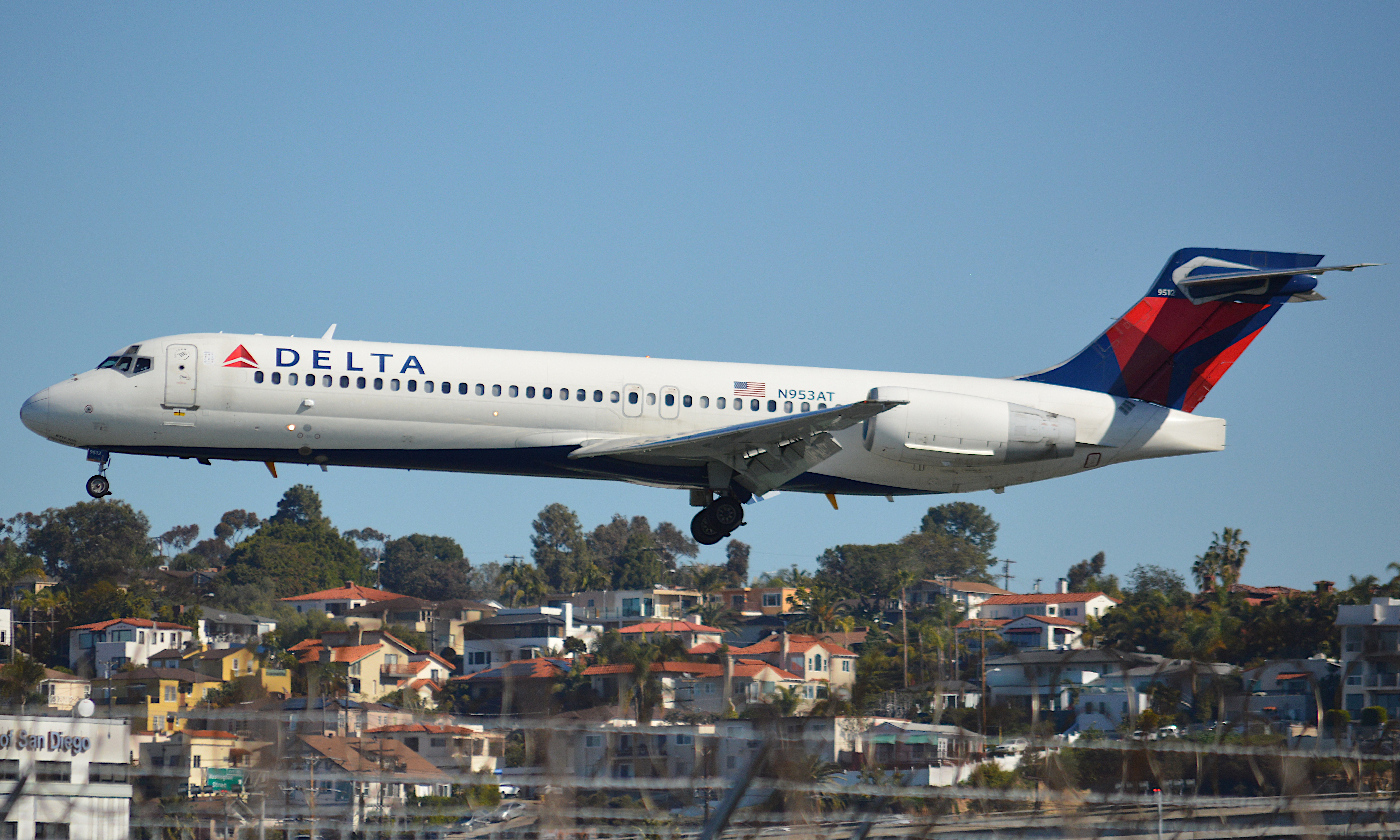 This is a once-weekly flight (and I believe the only 717 flight to SAN), so this was a very lucky catch! Delta Air Lines Boeing 717-200 N953AT landing on runway 27, San Diego International Airport, February 23, 2019.